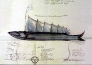 Drawing of the late-1700s experimental submarine called the Steinhude luce.